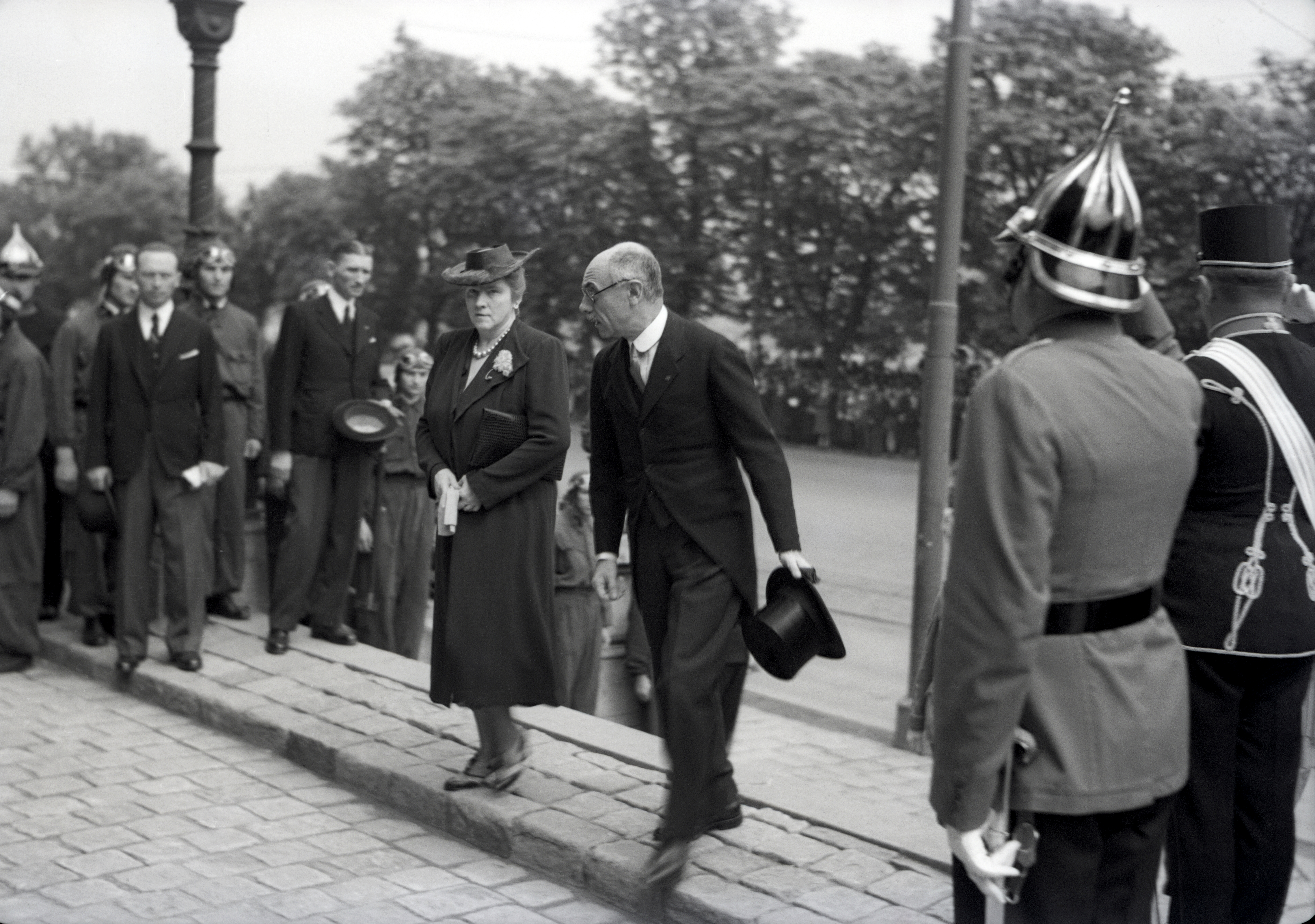 Hungarian Prime Minister Count Pál Teleki and his wife, Countess Johanna Bissingen-Nippenburg arrive to the wedding of István Horthy and Countess Ilona Edelsheim-Gyulai in April 1940.